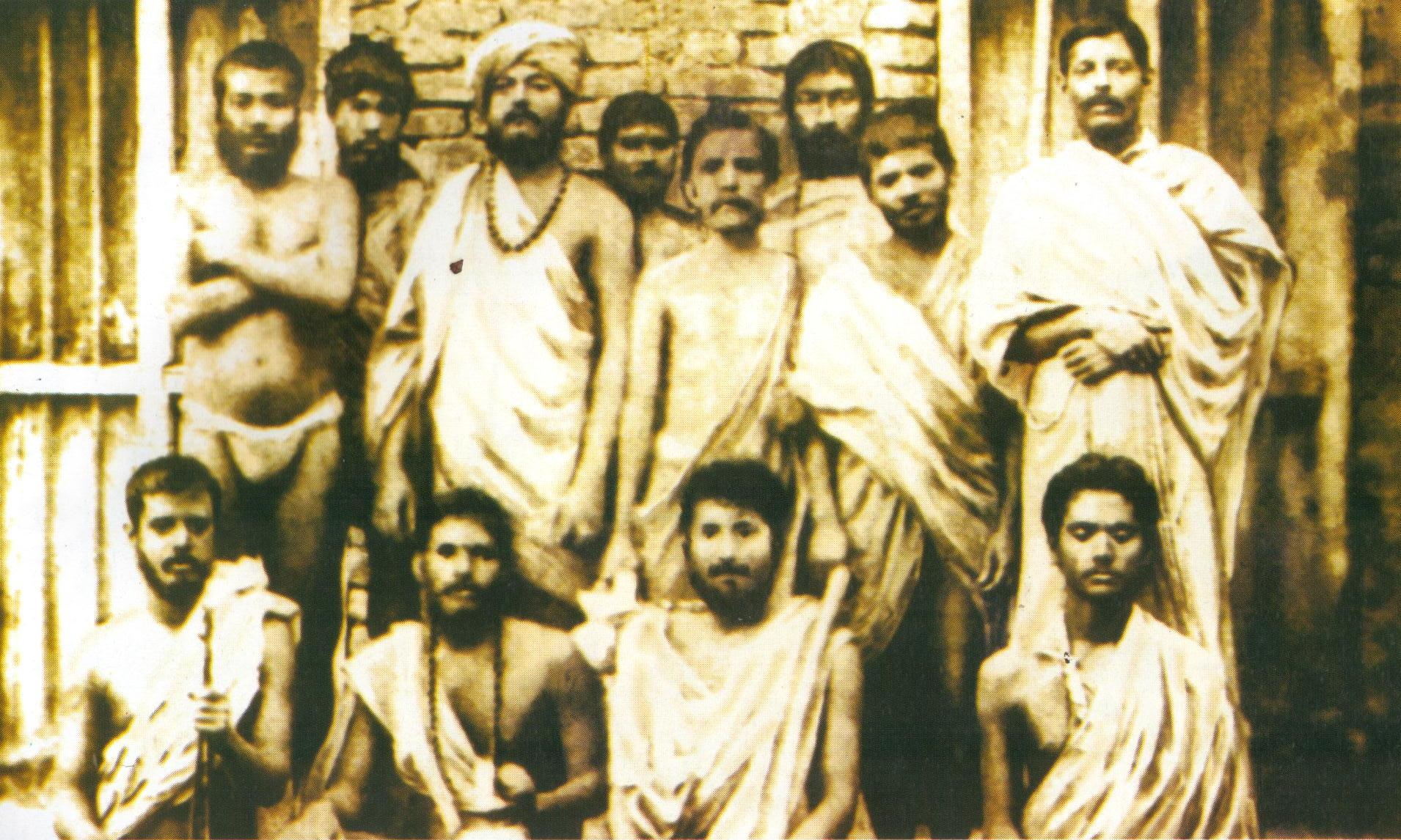 This image was taken on 30 January 1887 In Baranagar Math, Kolkata. Photographer is unknown. This group photo depicts Swami Vivekananda with other disciples of Ramakrishna. In this image: Standing: (from left to right) Shivananda, Ramakrishnananda, Swami Vivekananda, Randhuni (cook, some publications have identified this person as Swami Premananda), Debendranath Majumdar, Mahendranath Gupta (Shri M), Trigunatitananda, H.Mustafi Sitting: (from left to right) Niranjanananda, Saradananda, Hootko 'Gopal' (some publications have identified him as Swami Brahmananda), Abhedananda Information source Śaṅkara (2005) Acenā ajānā Bibekānanda (6. saṃskaraṇa. ed.), Kalakātā: Sahityam, pp. 118 ISBN: 81-7267-034-6. Group Photo at Baranagore Math. .